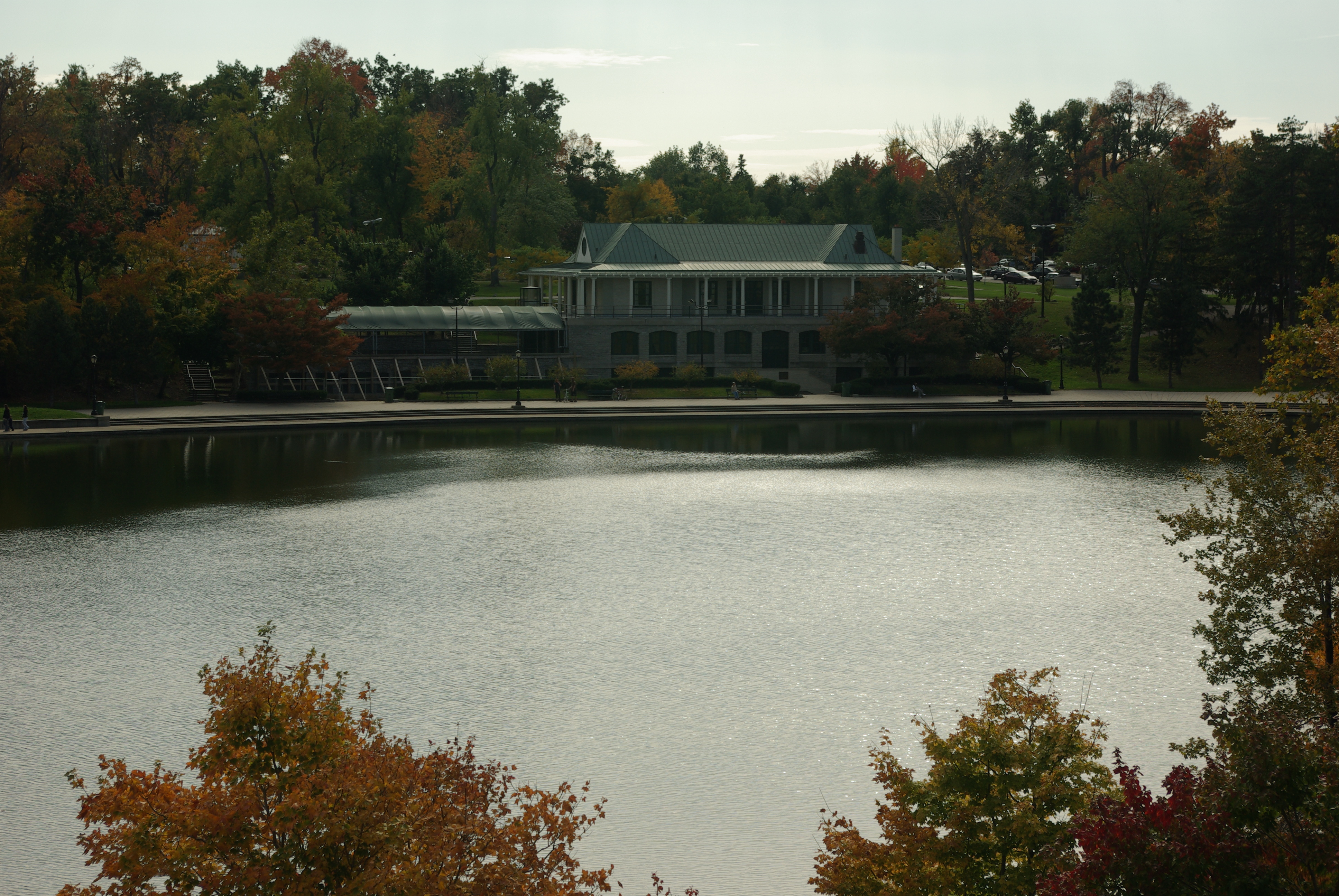 Delaware Park in Buffalo, NY